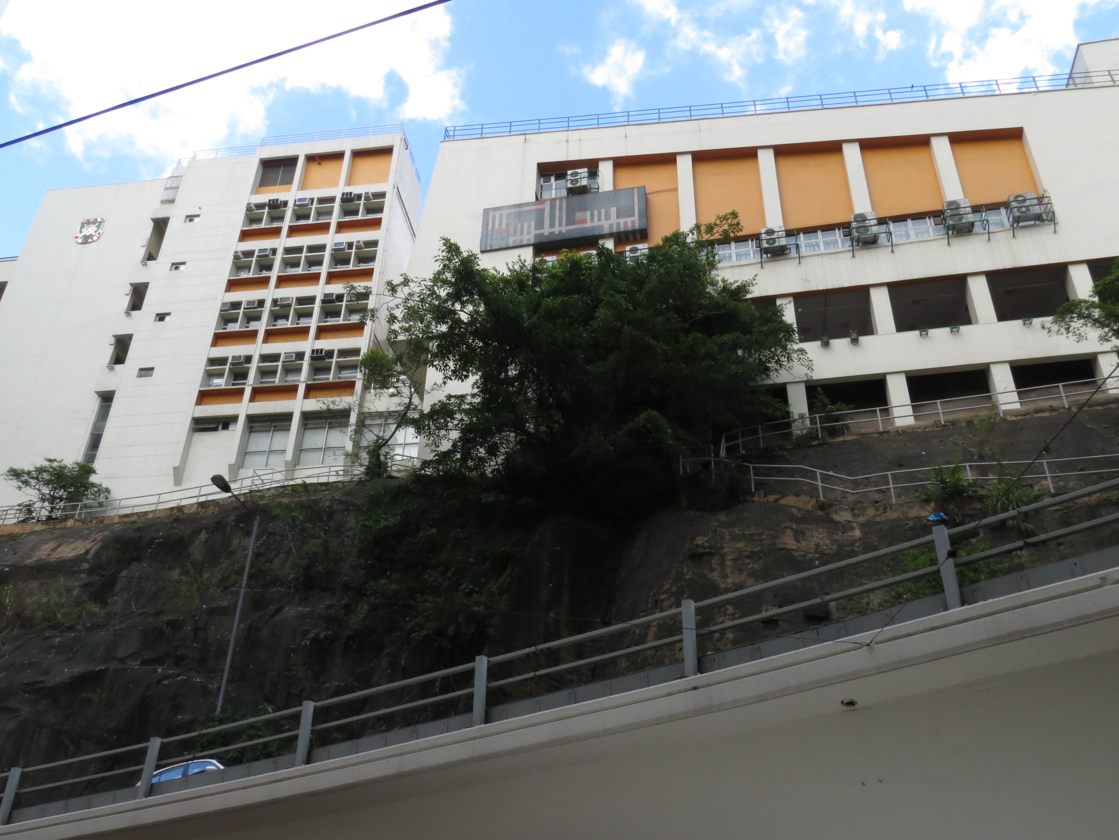 Belilios Public School, Causeway Bay, Hong Kong. (view from King's Road)